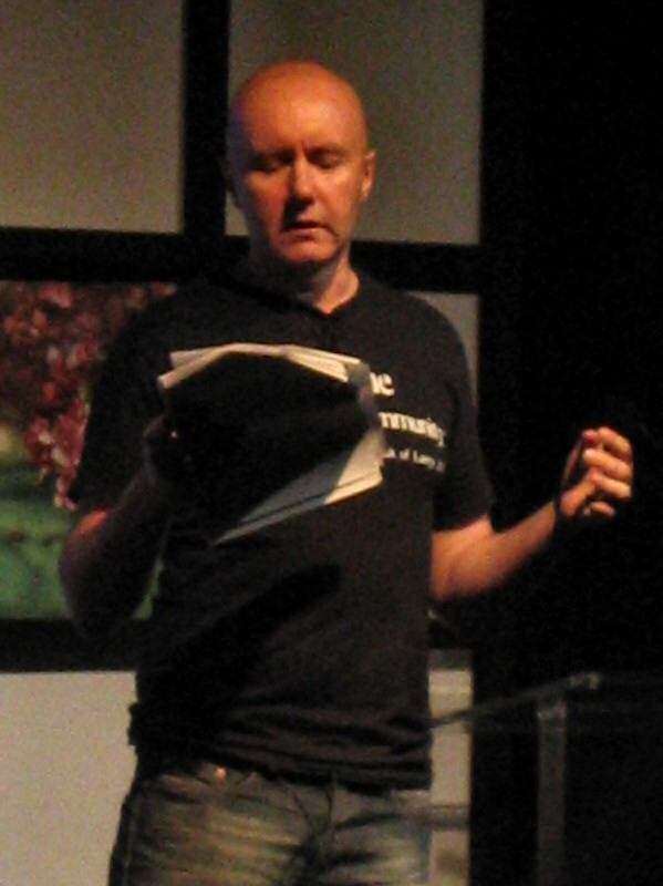 Irvine Welsh. Date: 19th August 2004 20:43 9 ISO: unknown